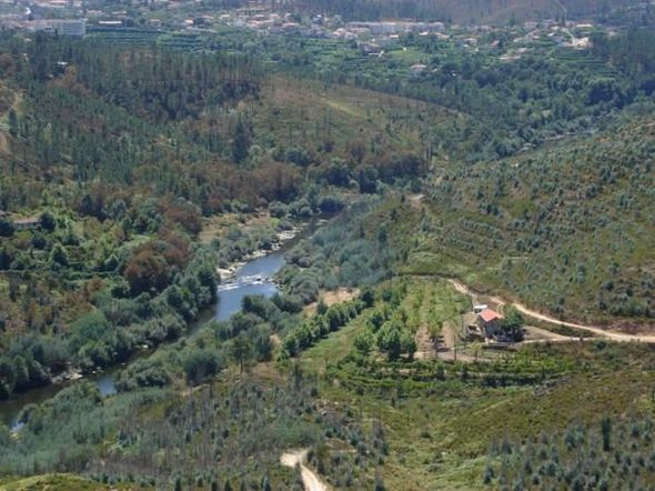 Overview of camping Quinta do Rio at Canedo de Basto, Portugal.